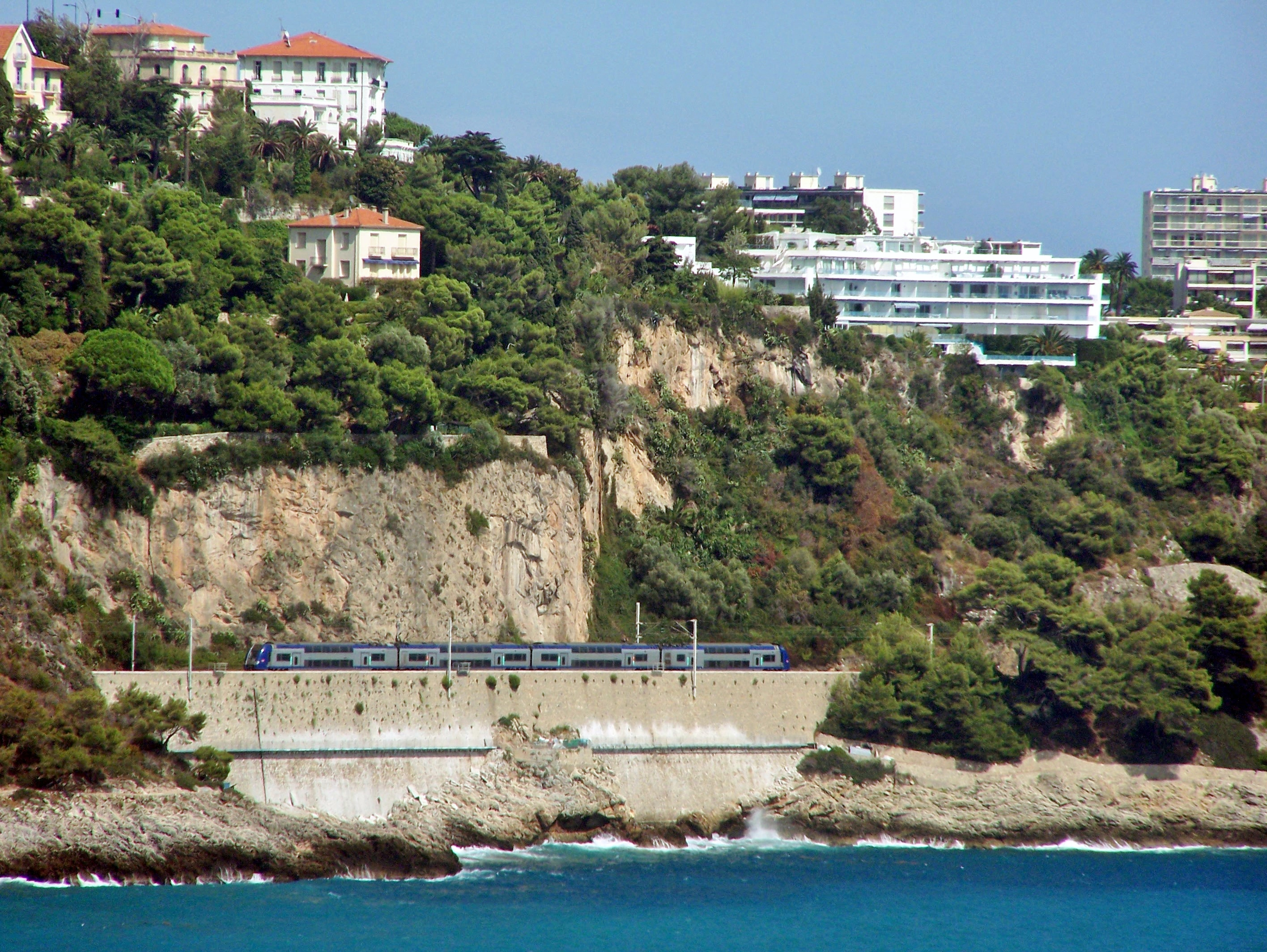 A French regional train entering the city of Roquebrune-Cap-Martin in the department of Alpes-Maritimes (south-east of the country).